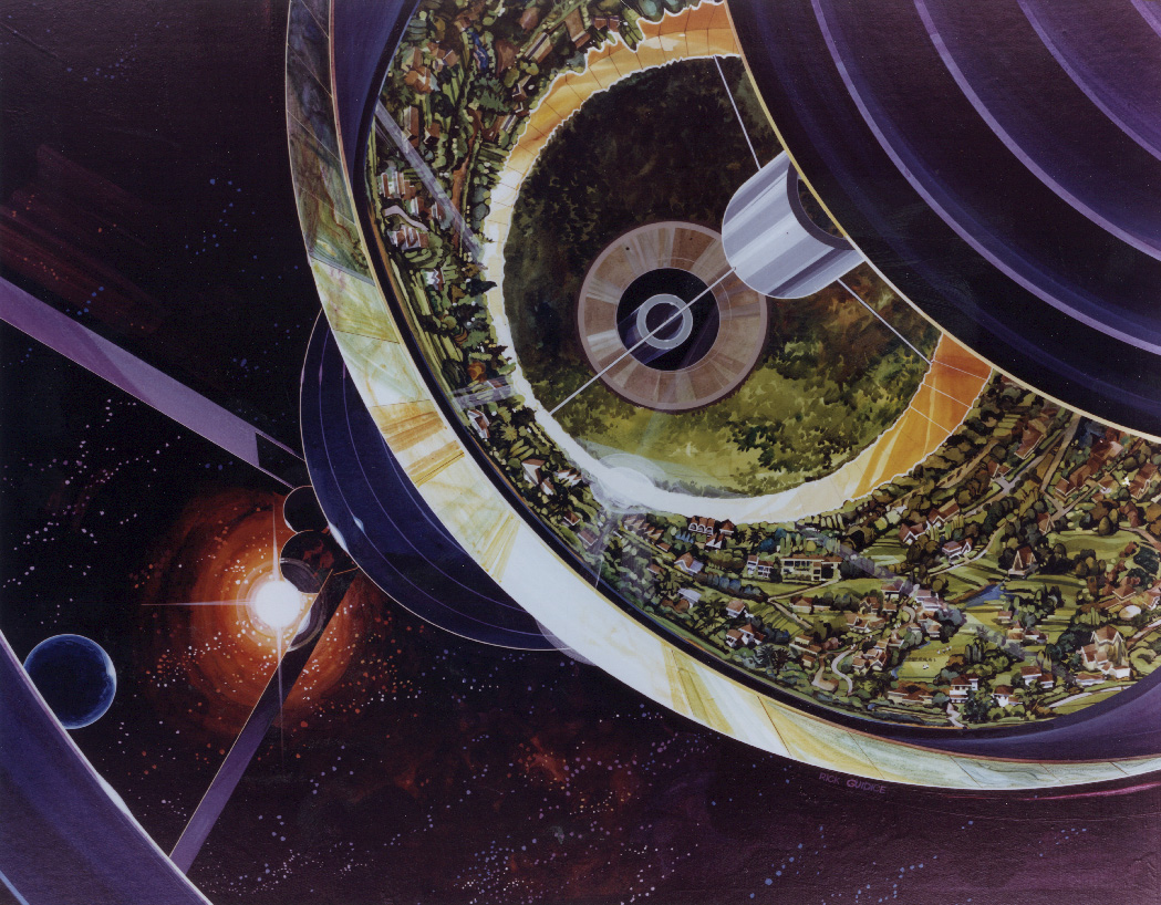 Cutaway view of a space colony. NASA ID number AC76-1089